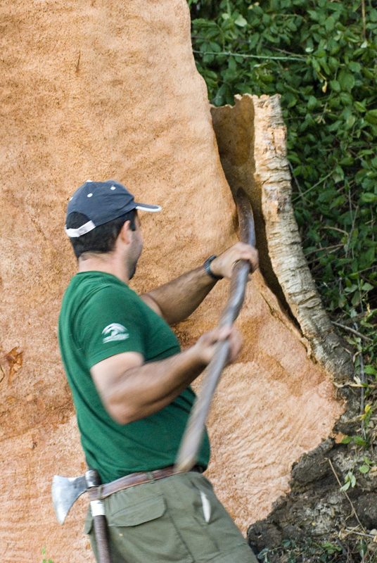 Cork harvesting in Aracena, Huelva, Spain